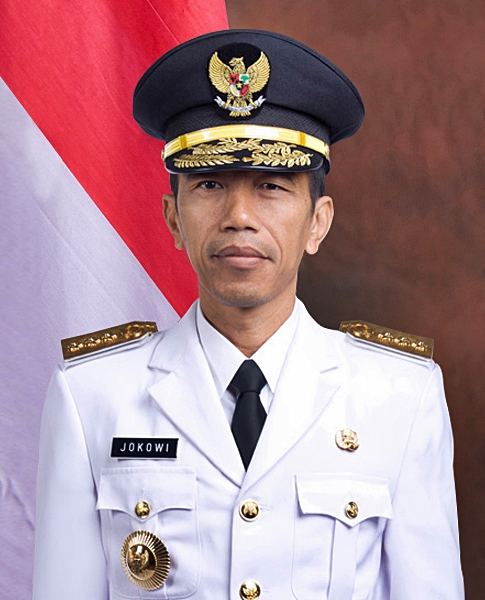 Ir. H. Joko Widodo, the 15th Governor of Jakarta (2012-2014)